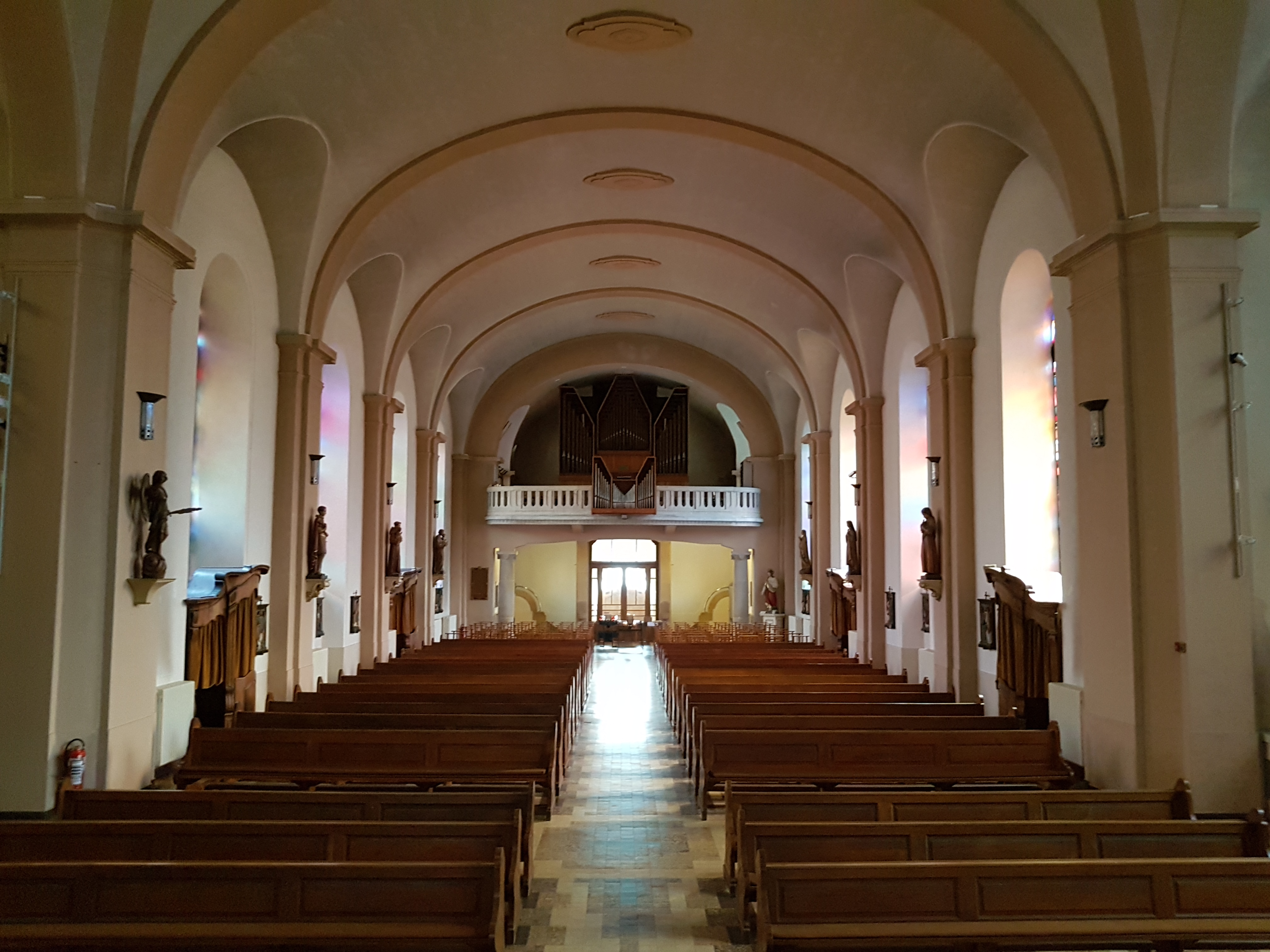 Nave - Church of Saint Martin in Wasserbillig (luxembourgish: "Waasserbëlleg") in the municipality Mertert, canton Grevenmacher in the Grand Duchy of Luxembourg.